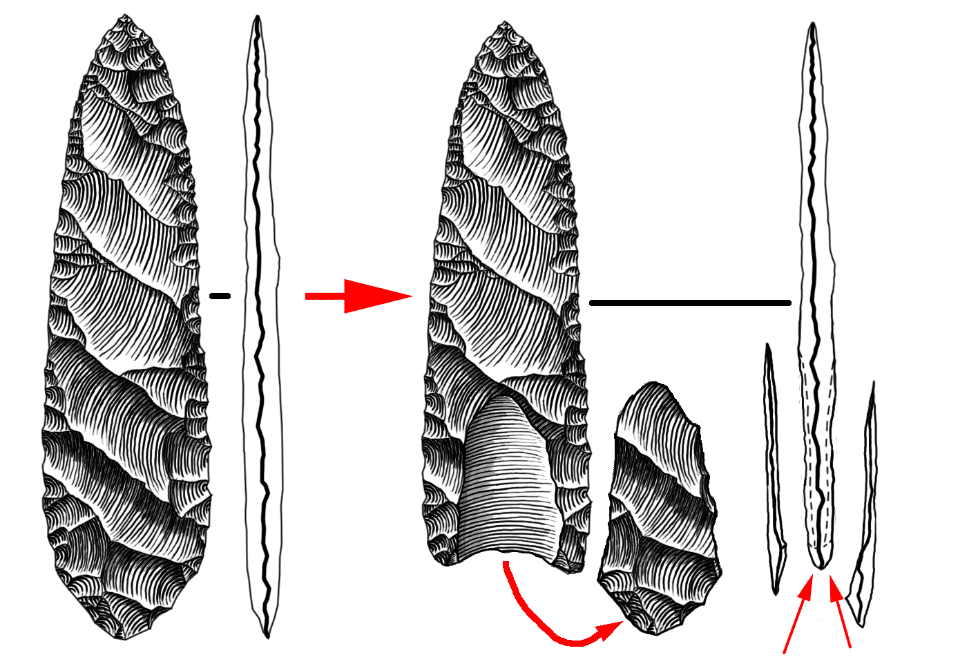 Fluting of a bifacial projectile point and its characteristic channel-flakes